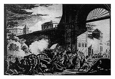 Tomás LÓPEZ ENGUÍDANOS's "The Second of May in Madrid". Etching, drypoint and aquatint.